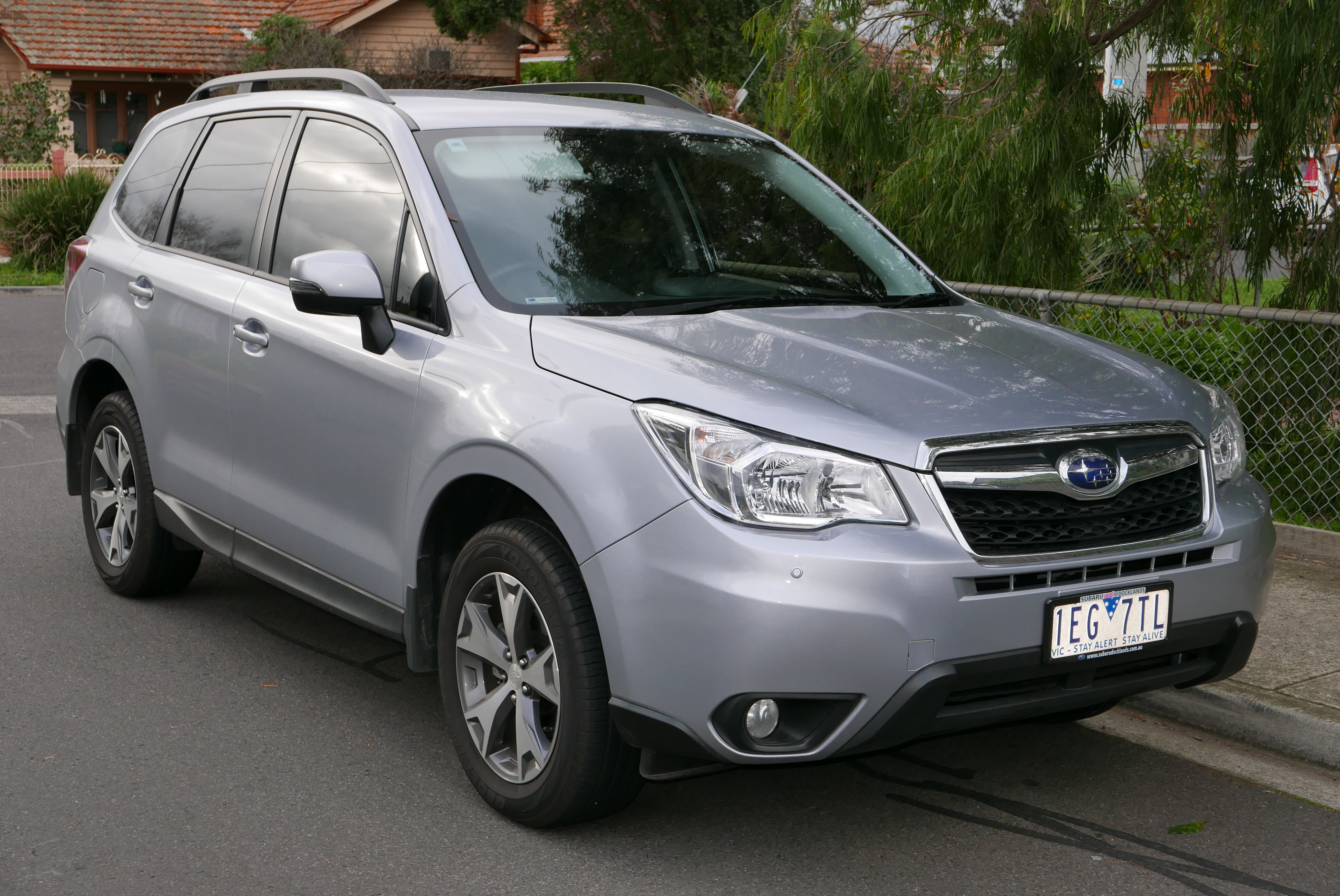 2014 Subaru Forester (MY14) 2.5i Luxury wagon. Trim level confirmed via used car website listings with the same licence plate. The 2.5i Luxury was a limited edition model. Photographed in Fairfield, Victoria, Australia. Vehicle registration enquiry results Jurisdiction Victoria Registration 1EG7TL Chassis code JF2SJ9KC5EG038711 Engine code 1484164 Compliance date 2014-10 Year of manufacture 2014